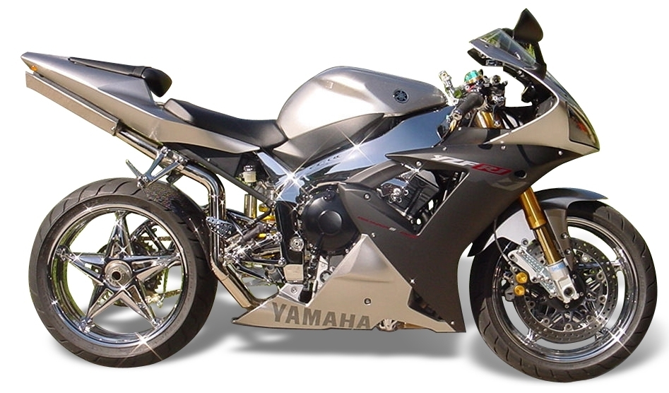 Customized Yamaha YZF R1, with, new rear wheel and seat